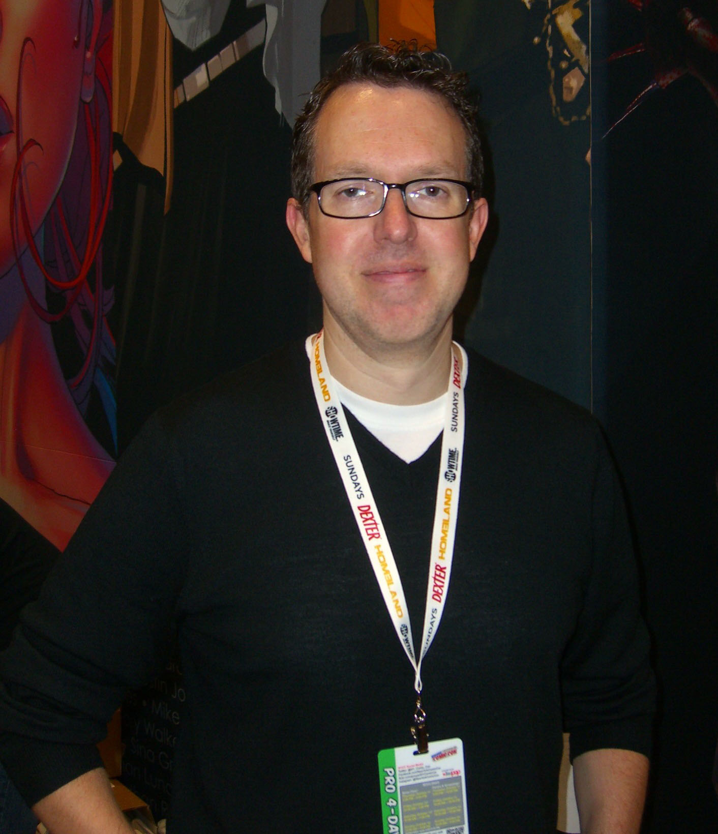 Comics creator Jay Faerber on Day 2 of the 2012 New York Comic Con, Friday October 12, 2012 at the Jacob K. Javits Convention Center in Manhattan. This photo was created by Luigi Novi. It is not in the public domain, and use of this file outside of the licensing terms is a copyright violation.